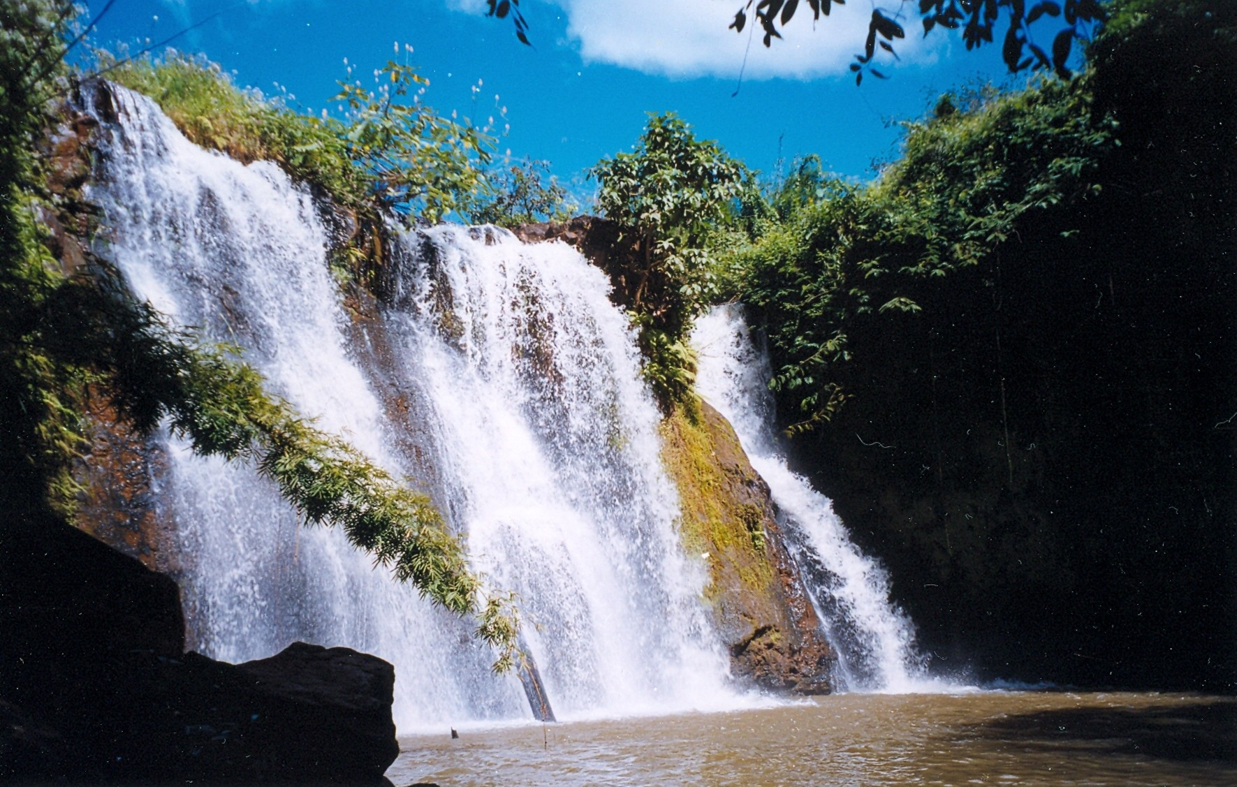 Ka Choung waterfall, Rattanakiri, Cambodia.